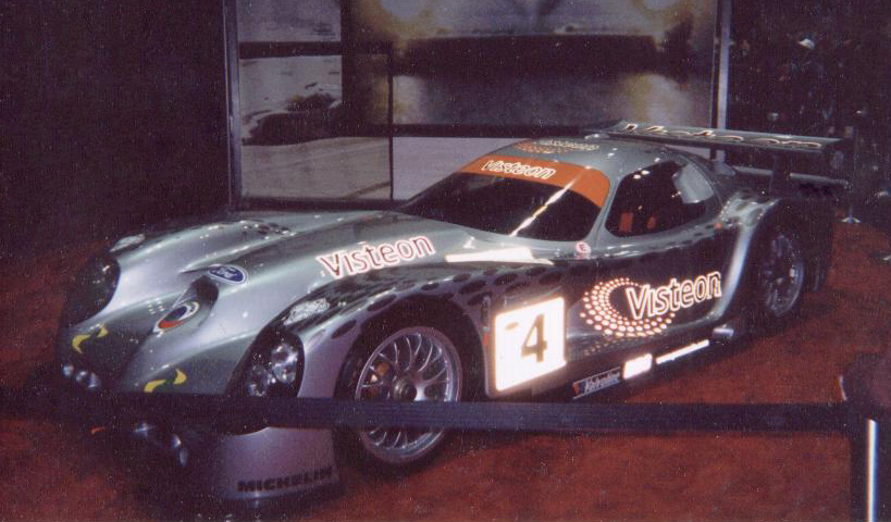 A Panoz GTR-1 on display at the Chicago Auto Show